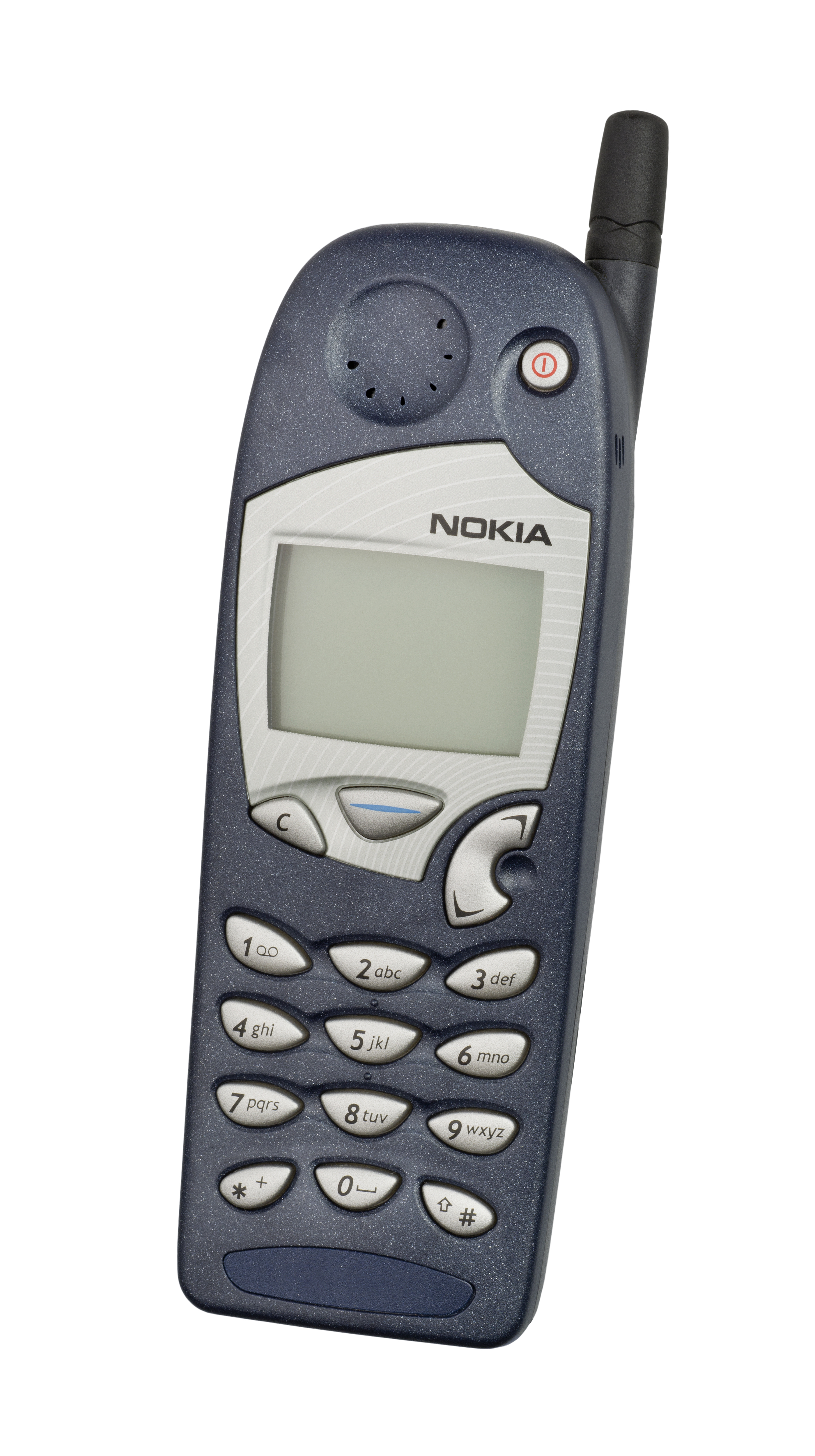 The Nokia 5125, a cell phone introduced in 1998. Apart of the Nokia 5110 family, this is an American version that was commonly offered as a pre-paid phone through Tracfone.